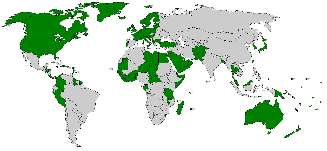 This is a map of countries recognizing independence of Kosovo